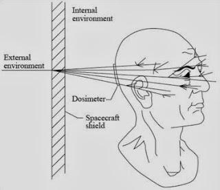 tandard spacecraft shielding, integrated into hull design, is strong protection from most solar radiation, but defeats this purpose with high-energy cosmic rays it simply splits into deadly showers of secondary particles [NAS].